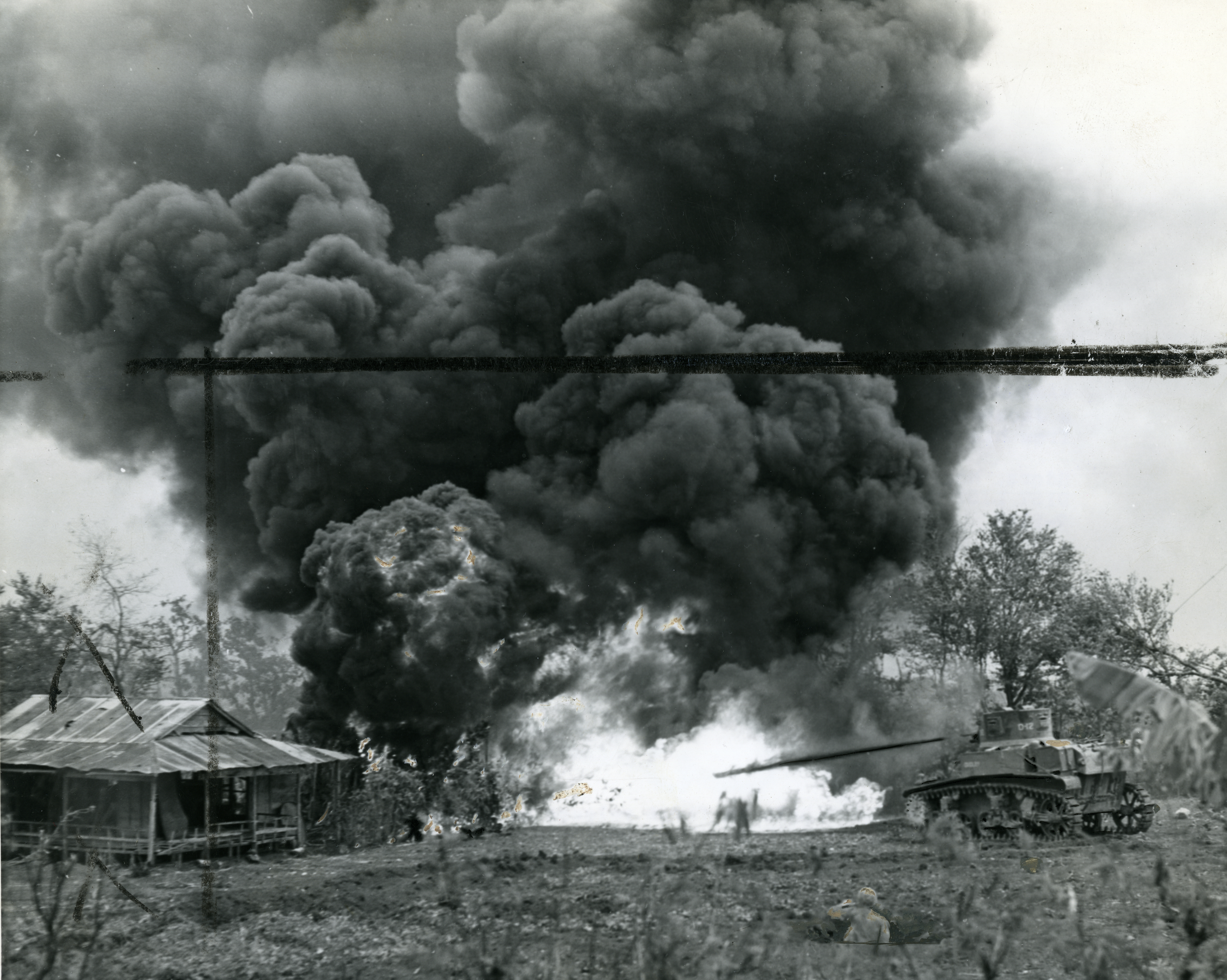 Warmed Over --- A marine flame throwing tank turns on the heeat to wipe out a Japanese pillbox on Saipan, while a line leatherneck watches the proceedings from his ringside foxhole in the foreground. MC 338 Corporal Clifford J. Jolly